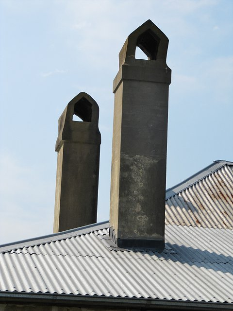 Beulah, Gilead